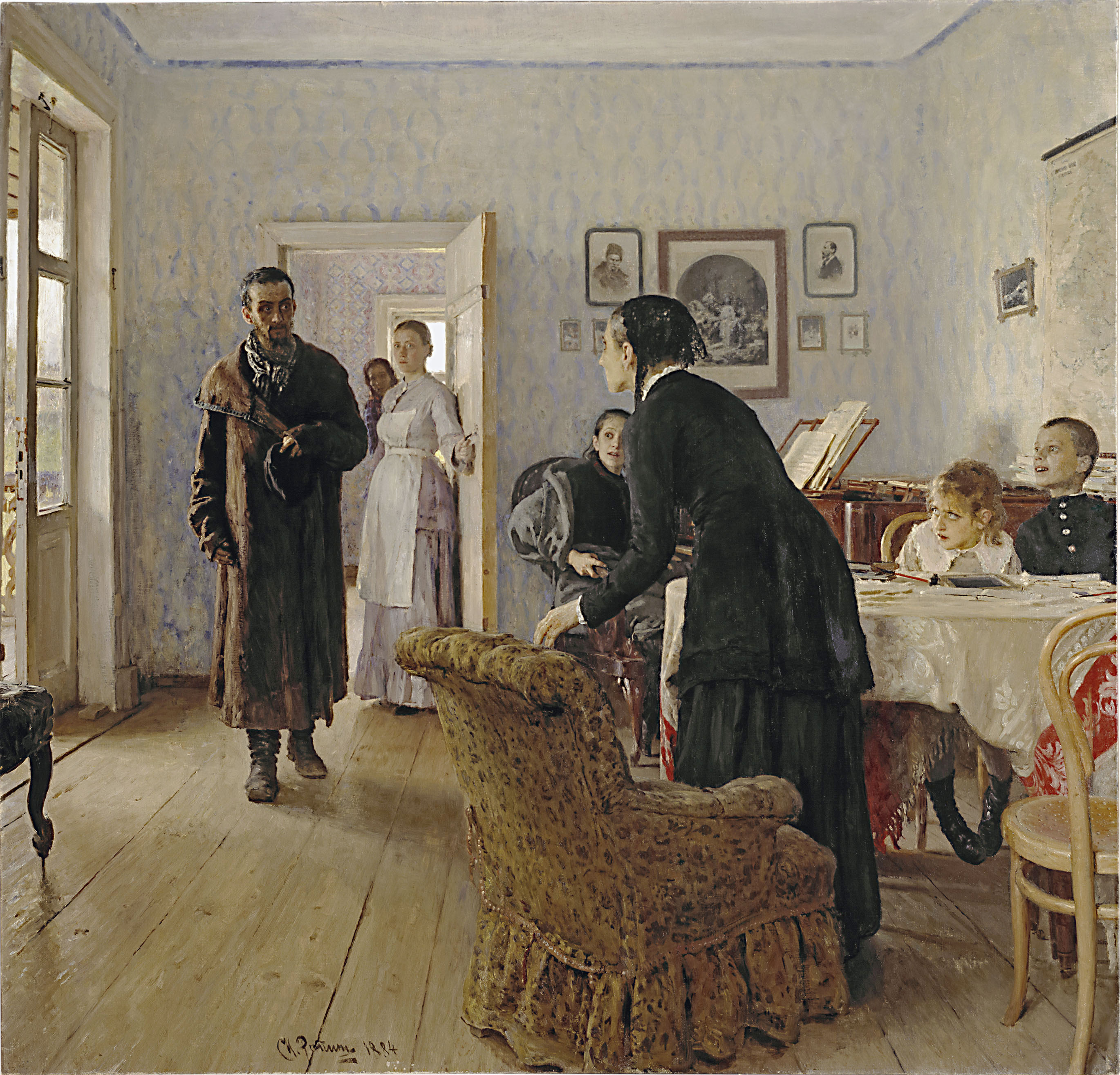 Shows the unexpected homecoming of a Russian revolutionary from an exile in Siberia. The idea of ​​the picture arose on the rise connected with the completion of the “Holy procession”. Here everything is seen right in front of the viewer. The author is clearly present somewhere near, observing, listening, arguing. We find him on the right in the foreground by a characteristic head, familiar from his self-portraits of these years, and the equally characteristic slanting of the shoulders. It can be seen that the picture was painted over and over again, the role of each character clarified, their placement at the intersection of views and light rays; a free space preserved in front of them. Repin worked on the canvas twice as much as he did on the “Cross procession”, he felt his way to the “wandering”, elusive plot. “They did not expect him” was preceded by a trip to Spain, the copying of Velazquez in the Museo Prado halls. Repin contrasted “cabinet theories” and “The Truth of Life.” This prompted him to blend the proportions of speculative and everyday, allowed him to combine the intellectual space of the plan with the interior of the house in Martyshkene, where he realized it. It is impossible to imagine that in the clear light of a quiet day, this strange phantom man appears timidly, uncertainly, that he has just walked along the sun-drenched grass greening through the balcony glass, that he will remain in this room where everyone except him has a place. There is a sad story about the returning, and not waiting, which is so difficult to understand each other.